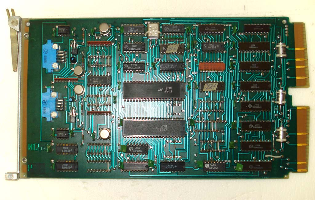 Duai serial line card from the soviet computer system Electronica-60-1. The connector is a MPI-bus, soviet clone of the Q-Bus.